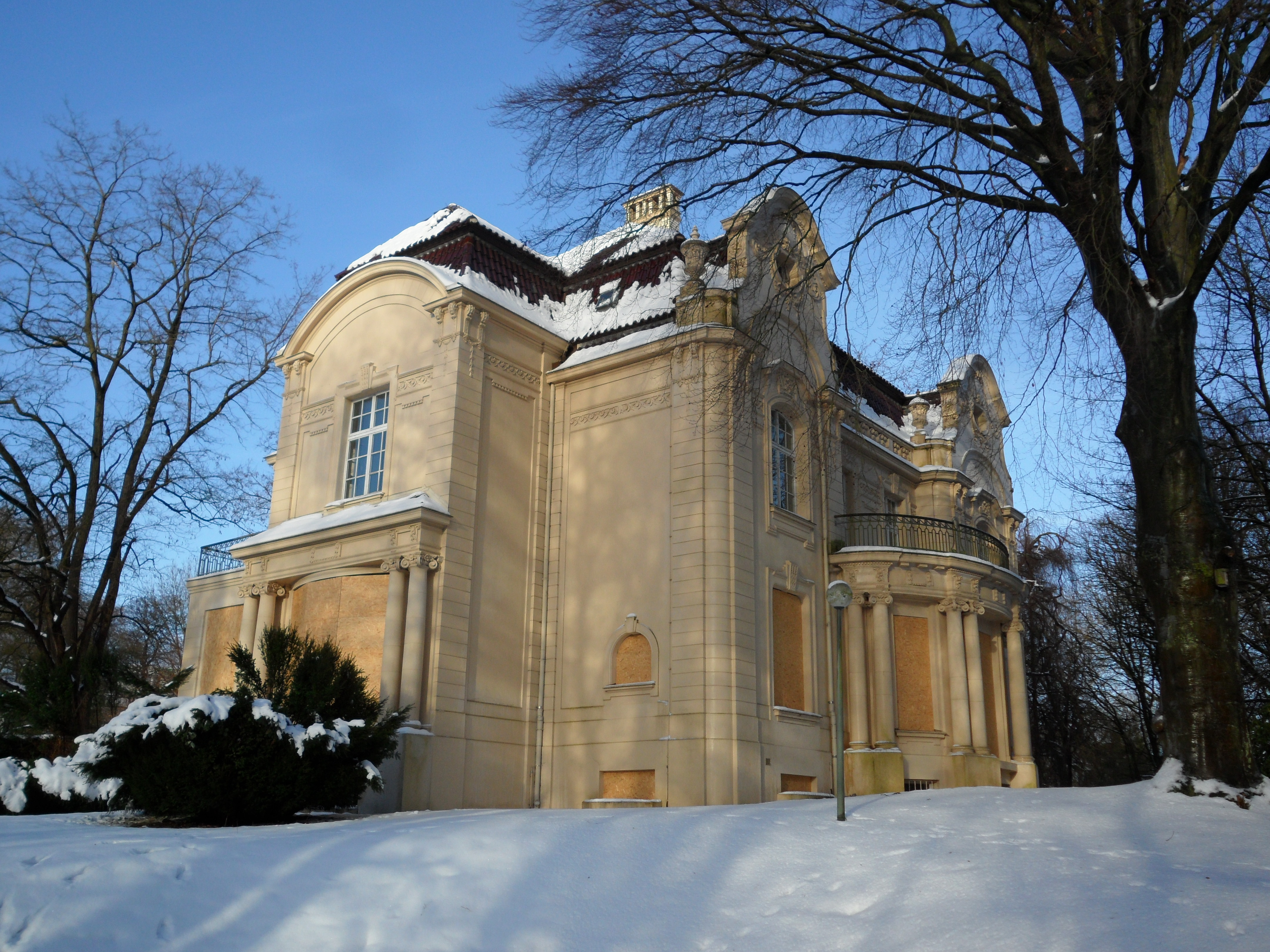 Villa Köster in December 2010